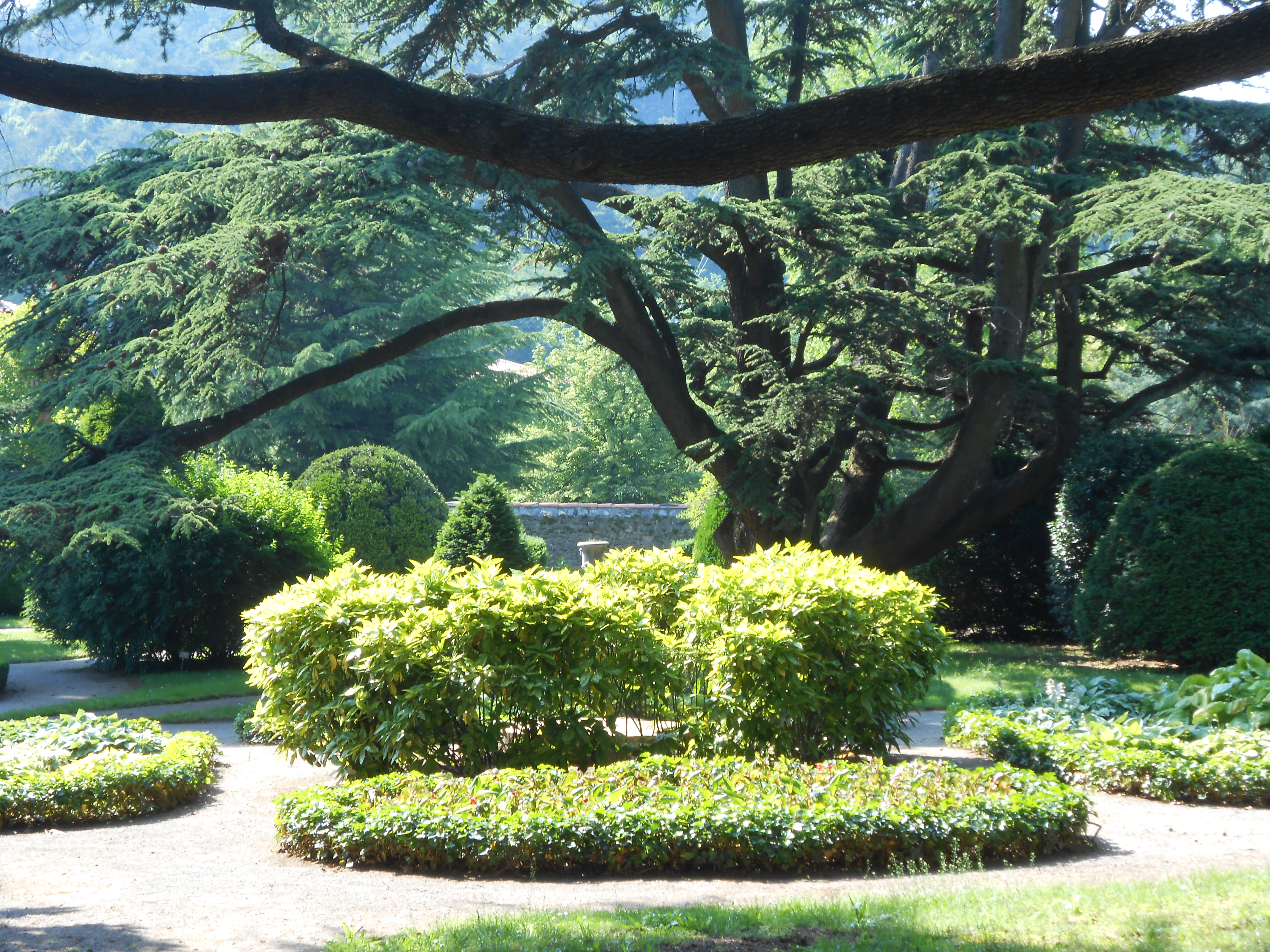 Cedars in the heart of the garden